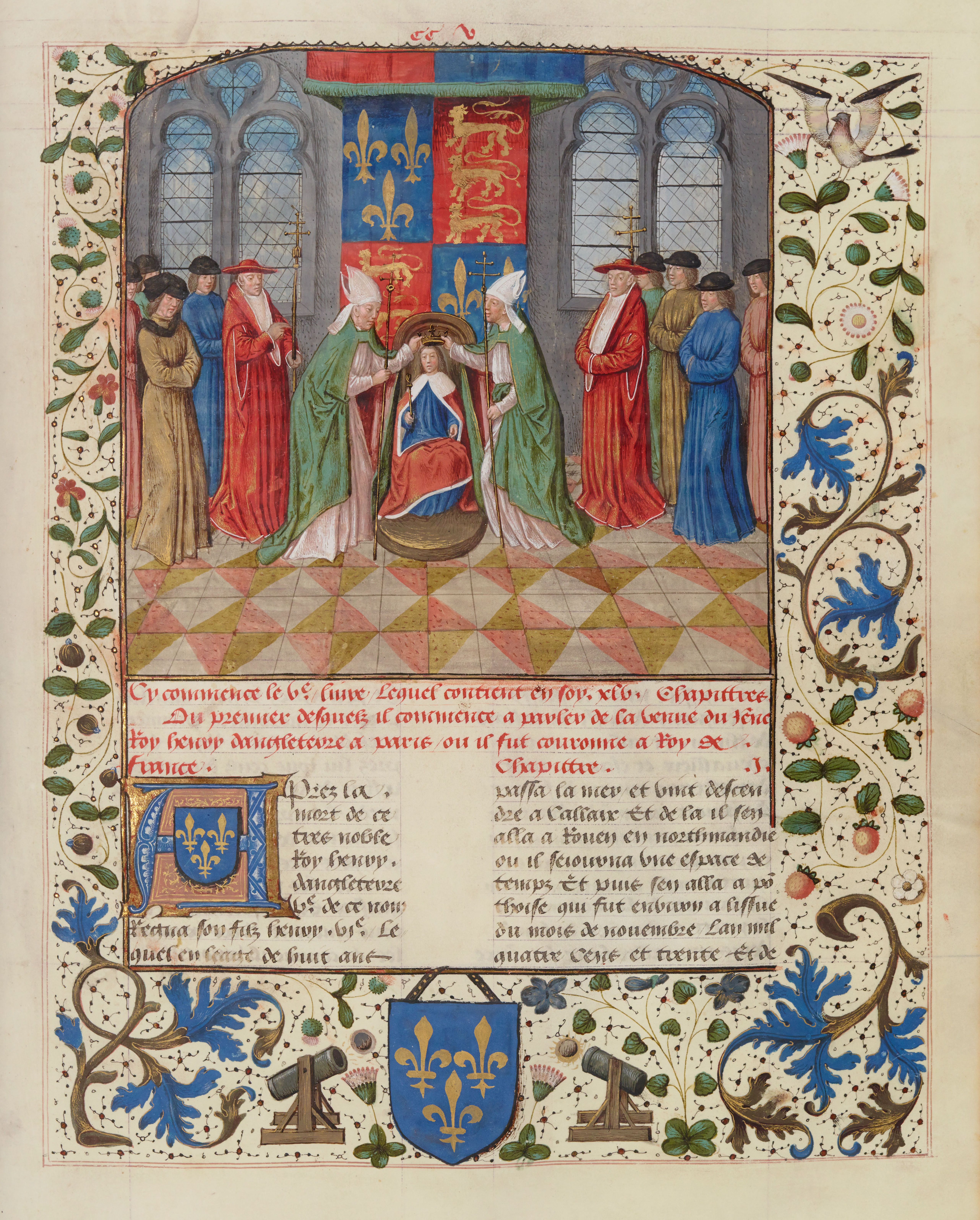 Coronation of Henry VI as King of France. Illuminated manuscript page from Vol 5 of the Anciennes chroniques d'Angleterre by Jean de Wavrin.